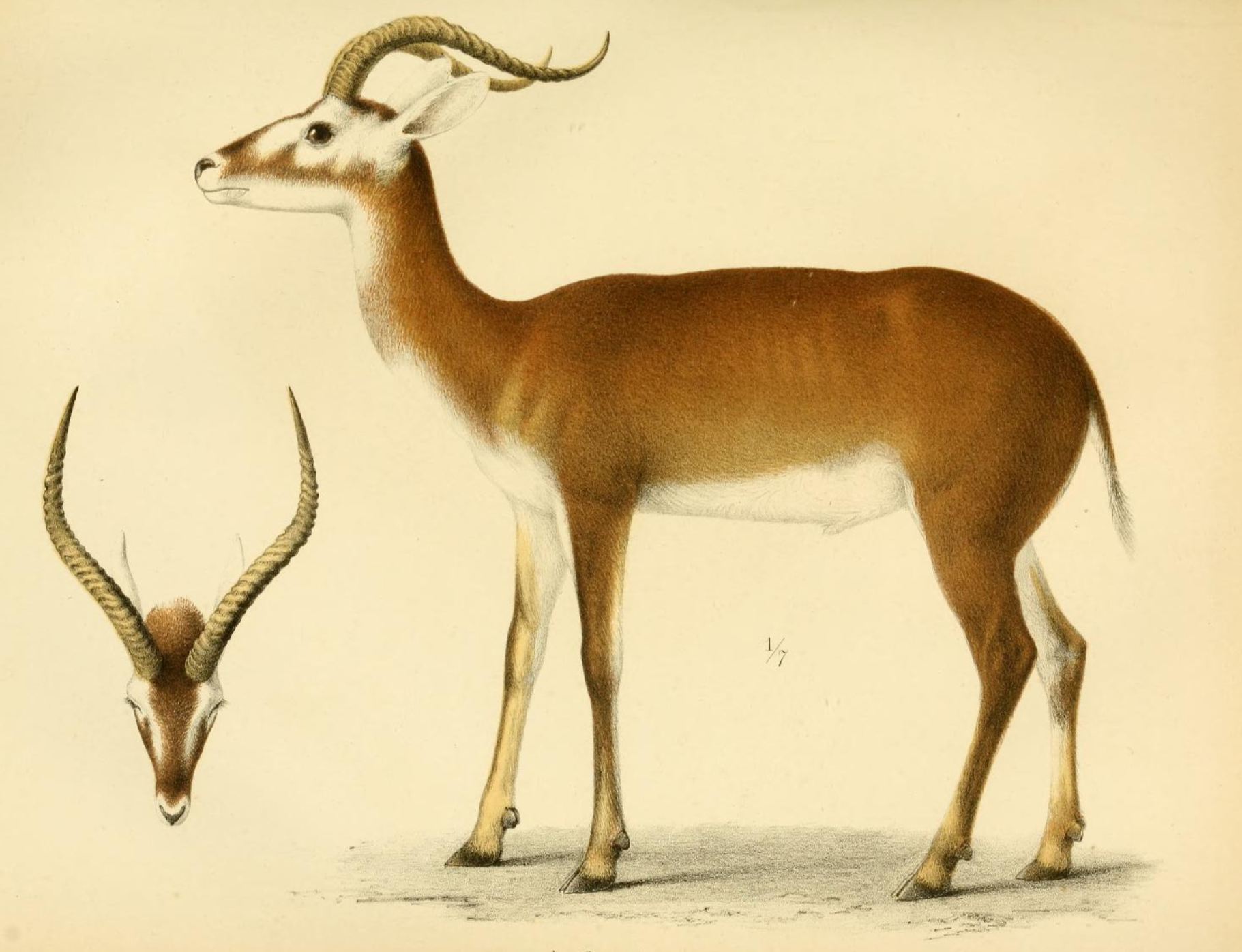 Drawing of the White-eared kob (Kobus leucotis) from the species description by Lichtenstein and Peters 1854